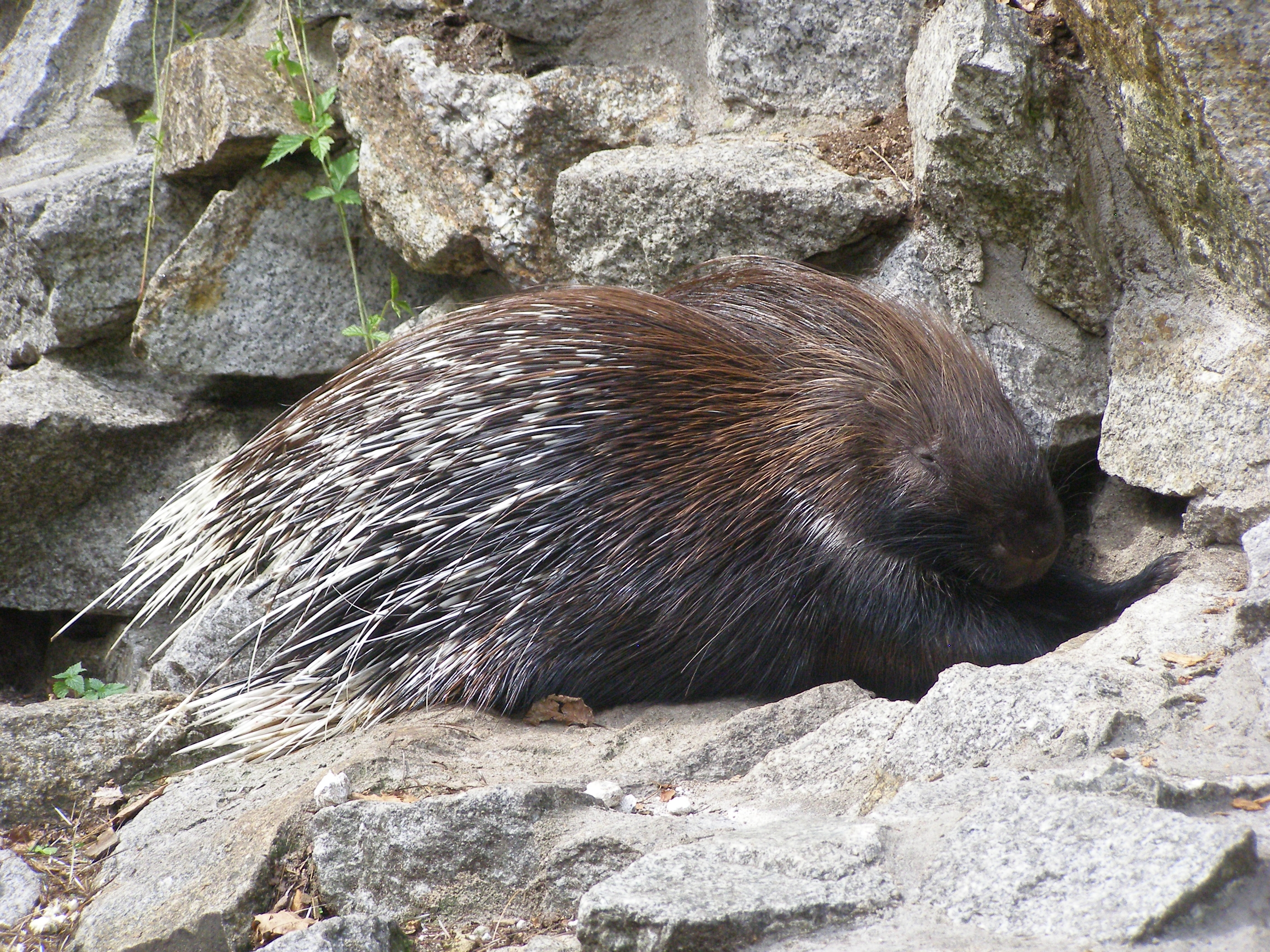 Wrocław - Zoological Garden - Indian Crested Porcupine (Hystrix indica)